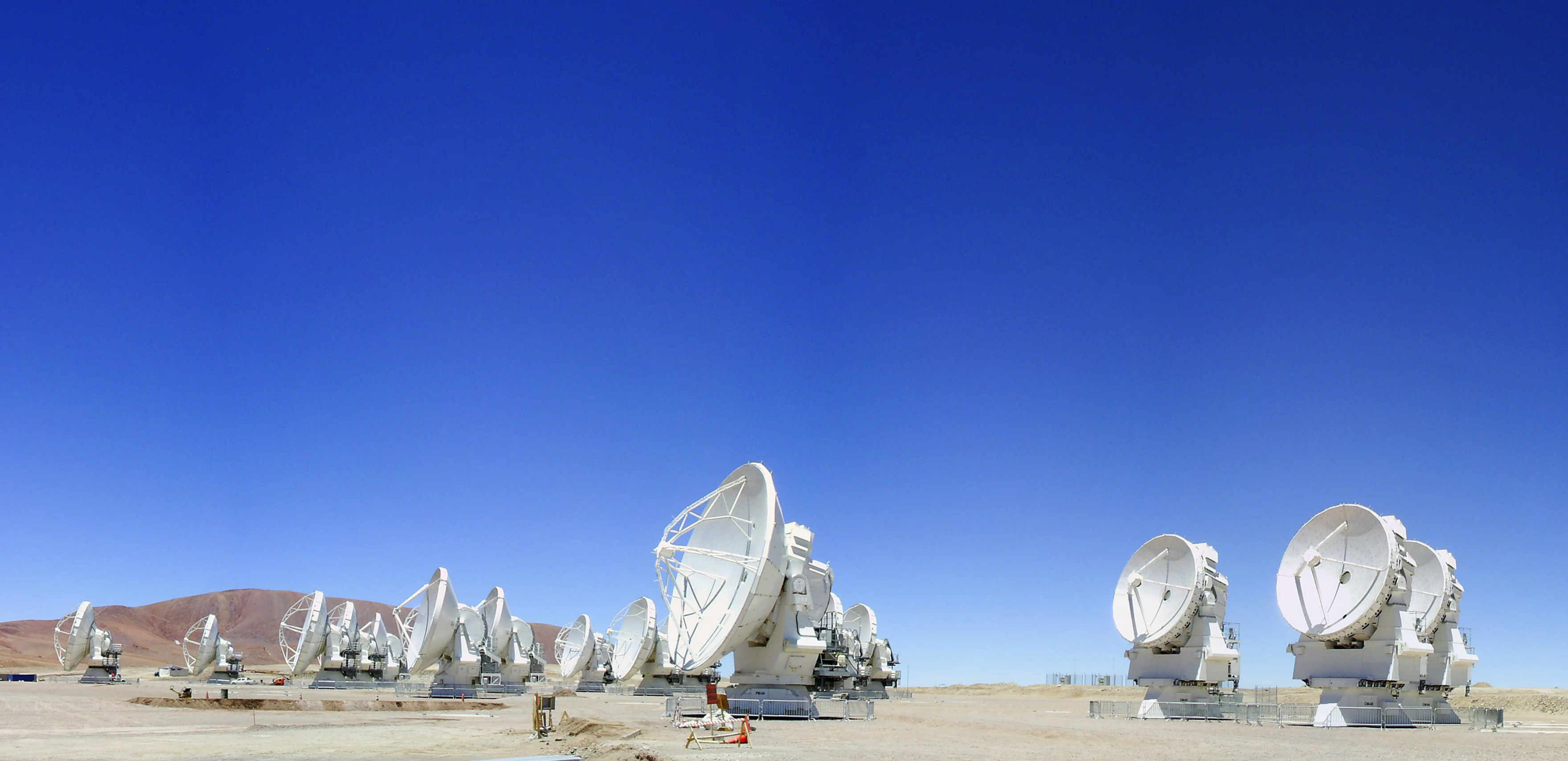 The ALMA array with 20 antennas in place, Chajnantor plateau, Chile.